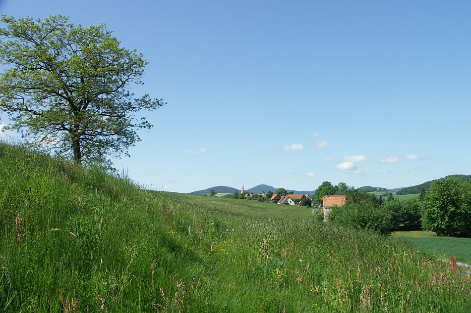 Bertsdorf, Saxony, Germany